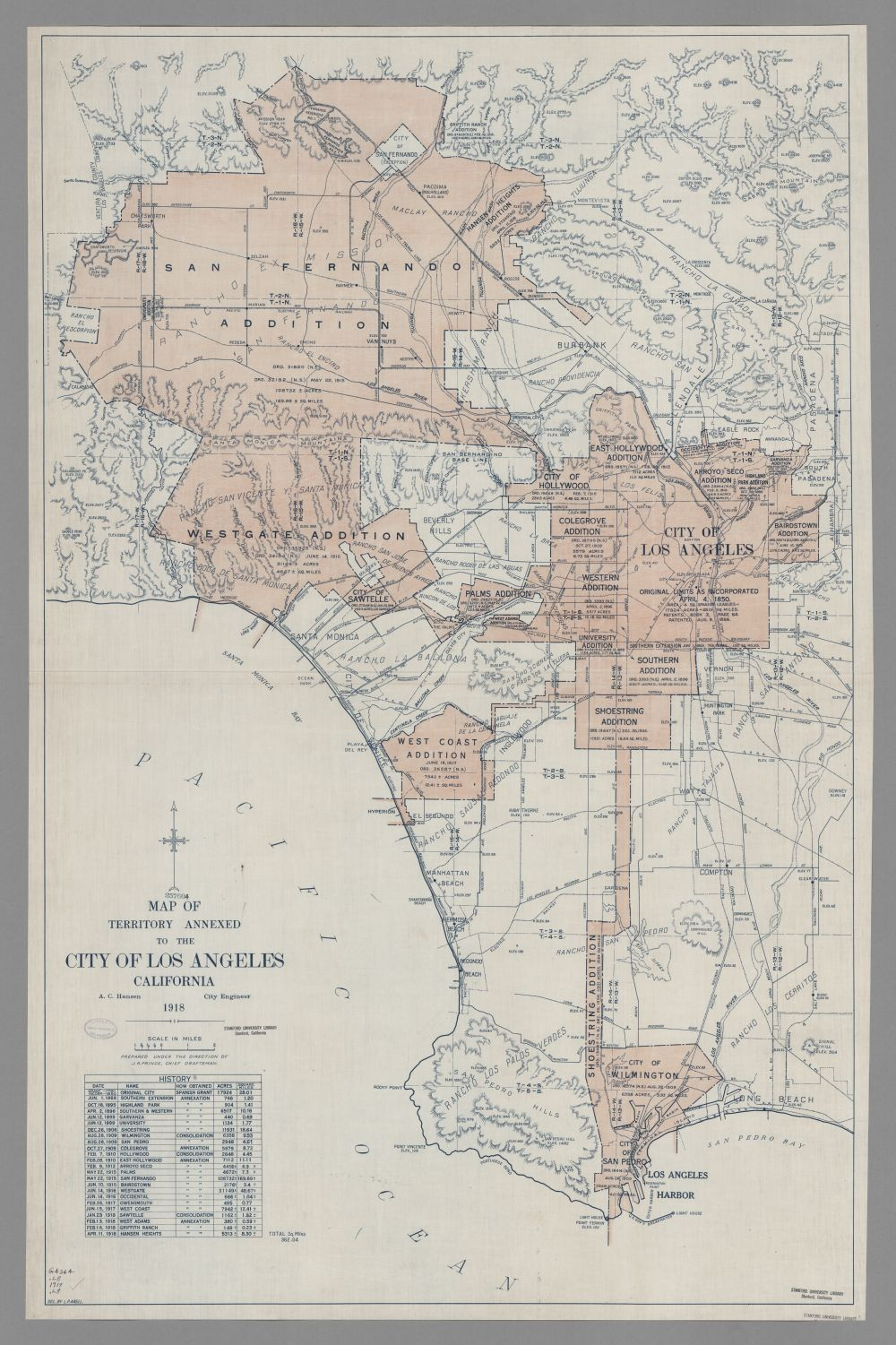 Annexations to city of Los Angeles to 1918